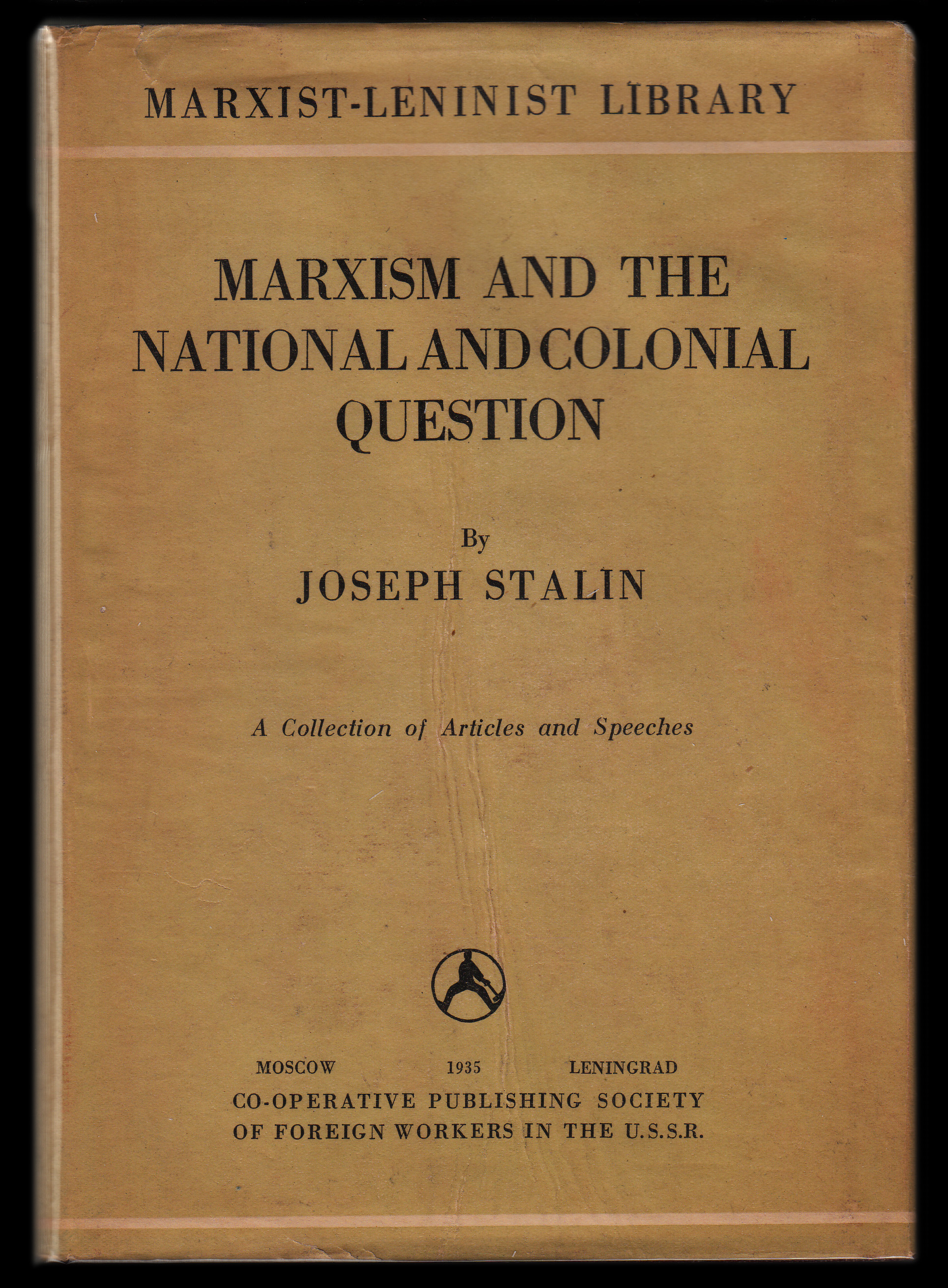 Dust jacket for Marxism and the National and Colonial Question by Joseph Stalin (Moscow: June 1935). Text-only design, not copyrightable. Digital image by Tim Davenport ("Carrite") from a specimen in his collection, file released to the public domain without restriction.